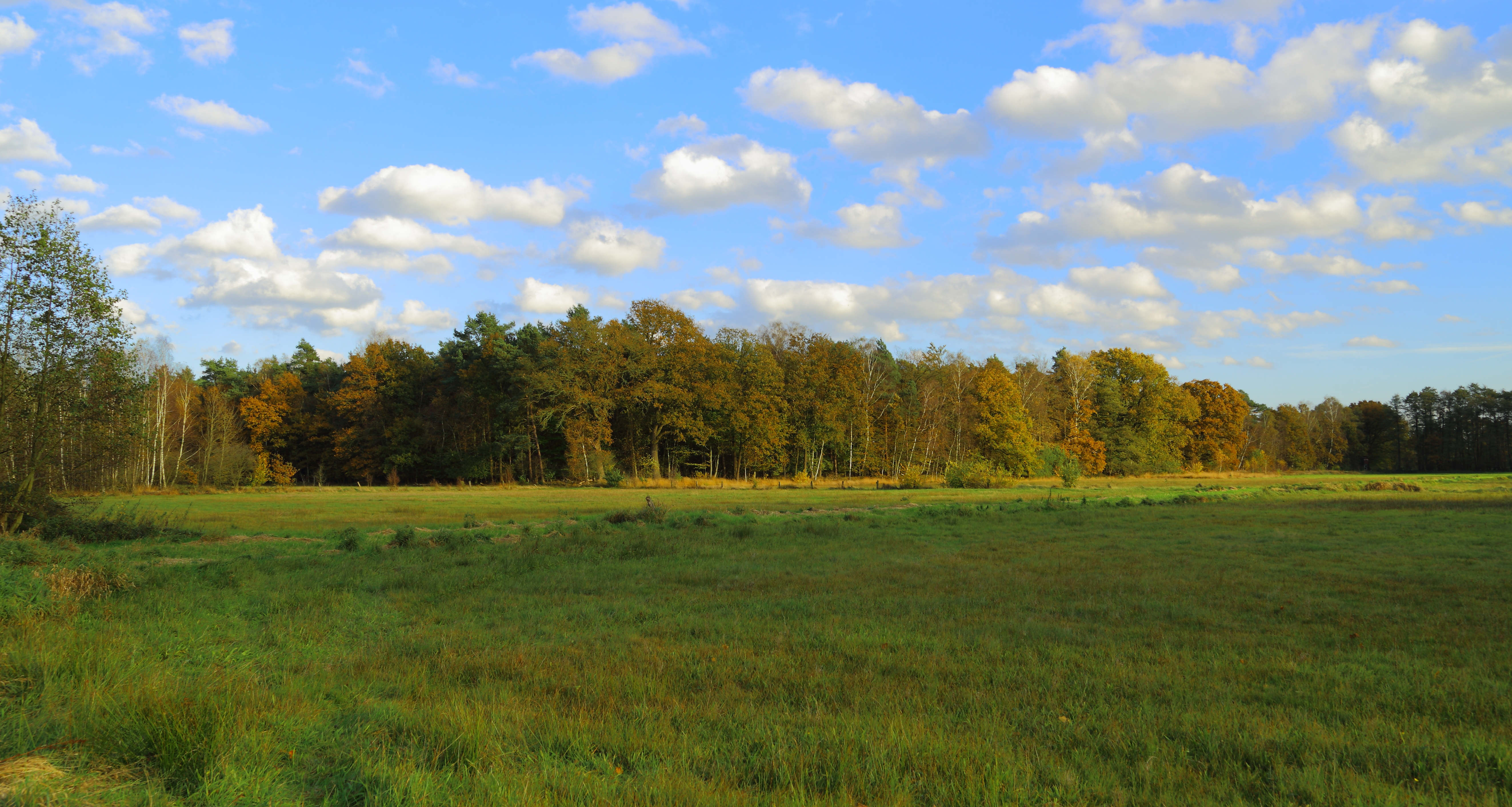 The nature reserve Seeste Field (Naturschutzgebiet „Seester Feld“) in Westerkappeln, Kreis Steinfurt, North Rhine-Westphalia, Germany.